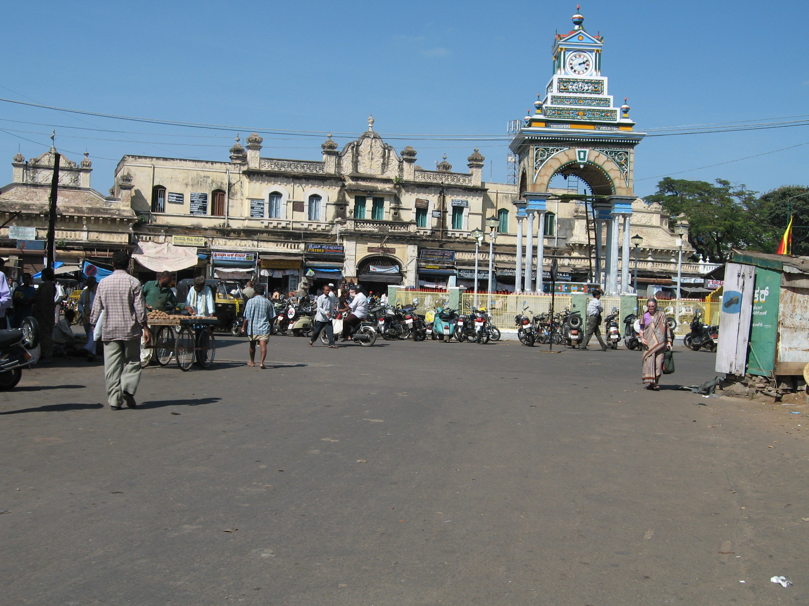 Mysuru market area(K R Market) with clock tower.